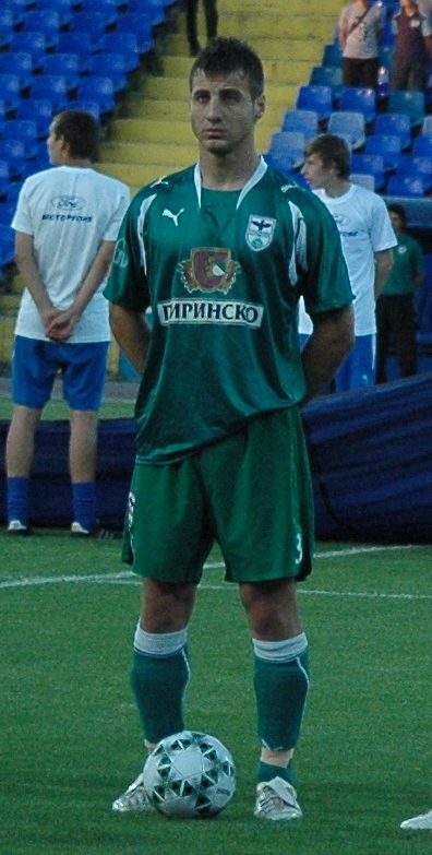 Nikolay Bodurov